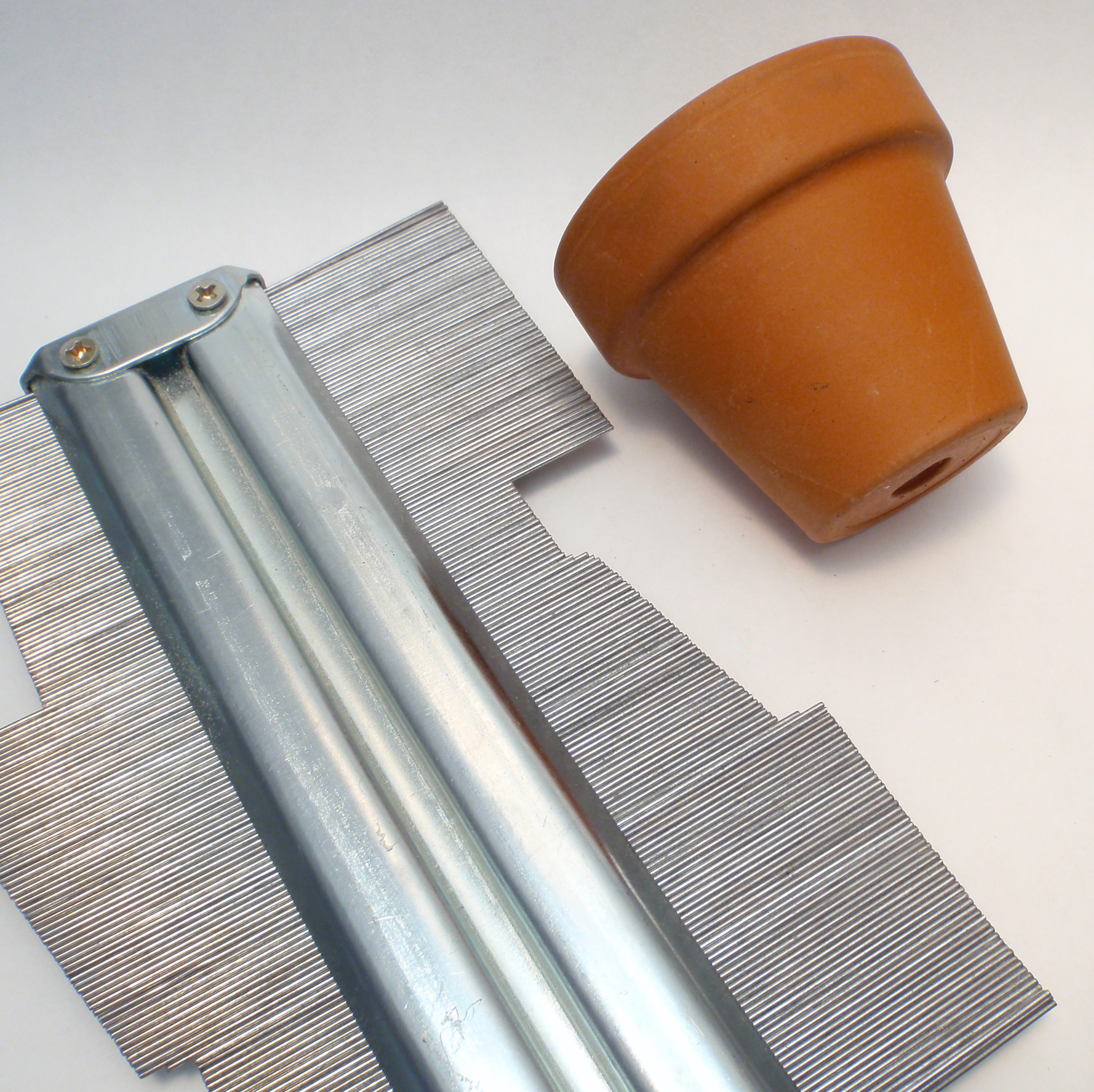 a contour gauge set to the contours of a little pot